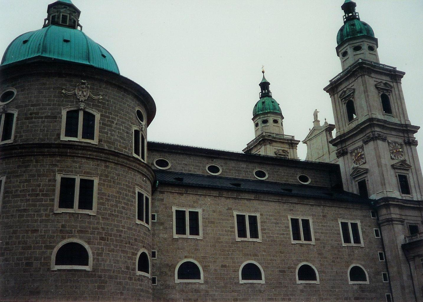 Salzburg Cathedral (Dom) North view